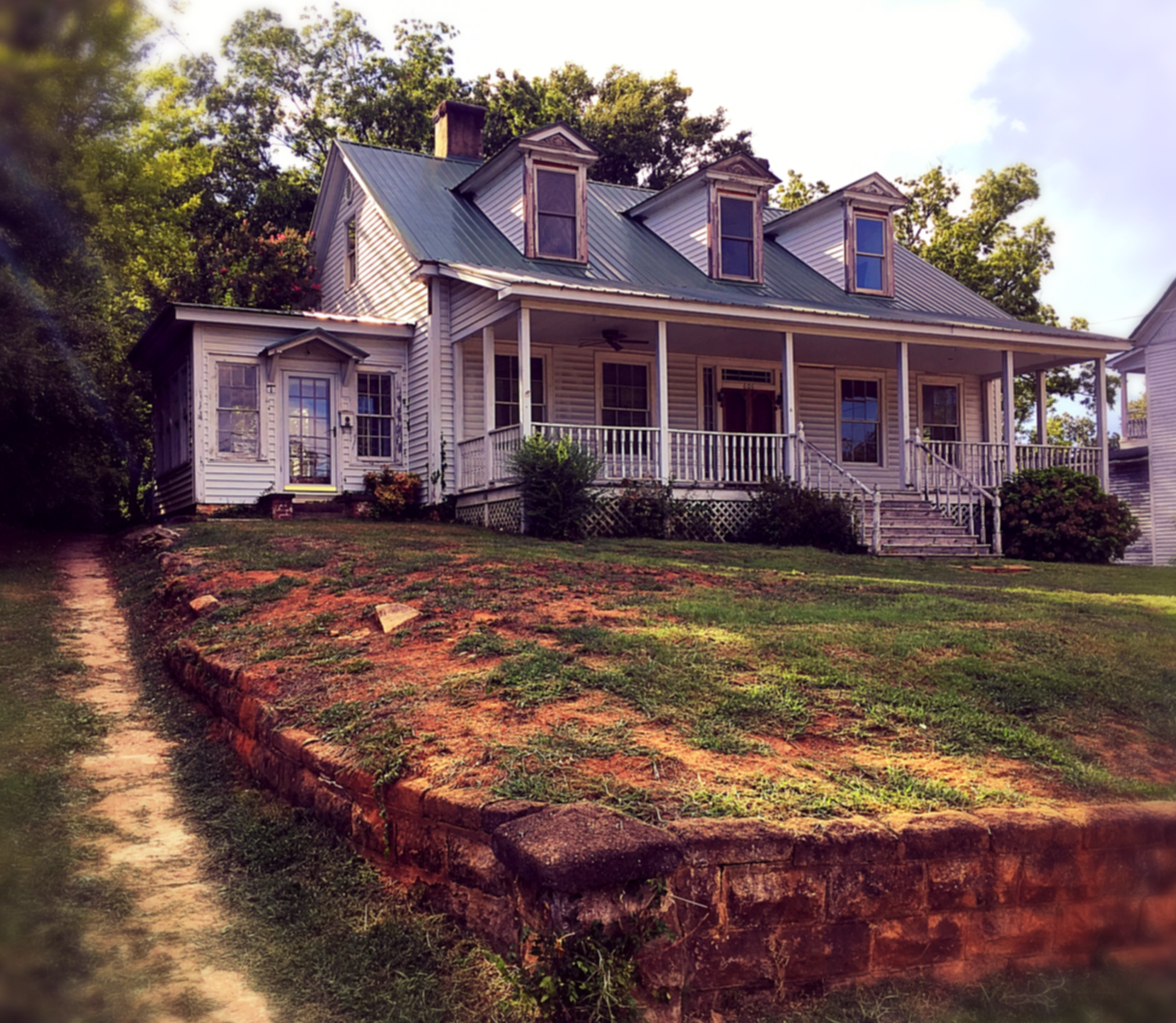 Hix-Blackwell House, part of the South Harper Historic District in Laurens, South Carolina.